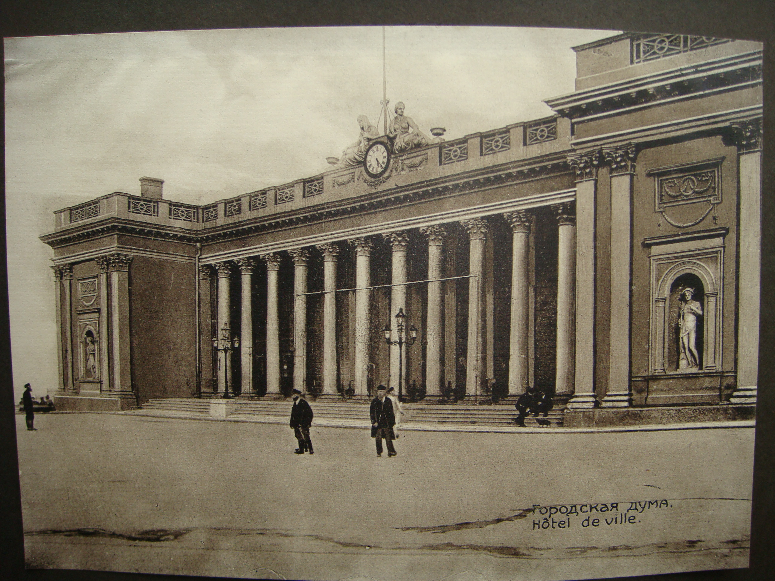 This is photo view of Odessa from Souvenir Photo Album published in Odessa circa early XX century.